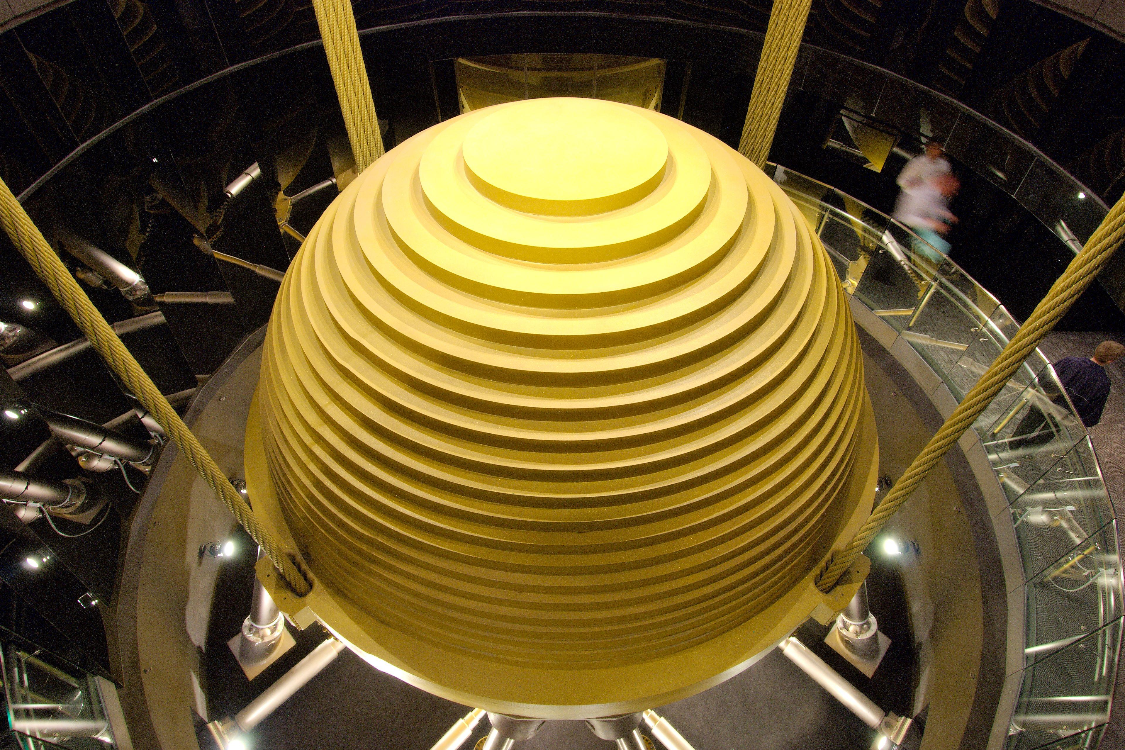 As the next picture clearly points out, this is the world's largest wind damper in the top of the world's tallest building. Taipei 101 is a gorgeous building and an awe inspiring example of modern engineering. I'd say it's well worth the trip to Taipei just to see it!